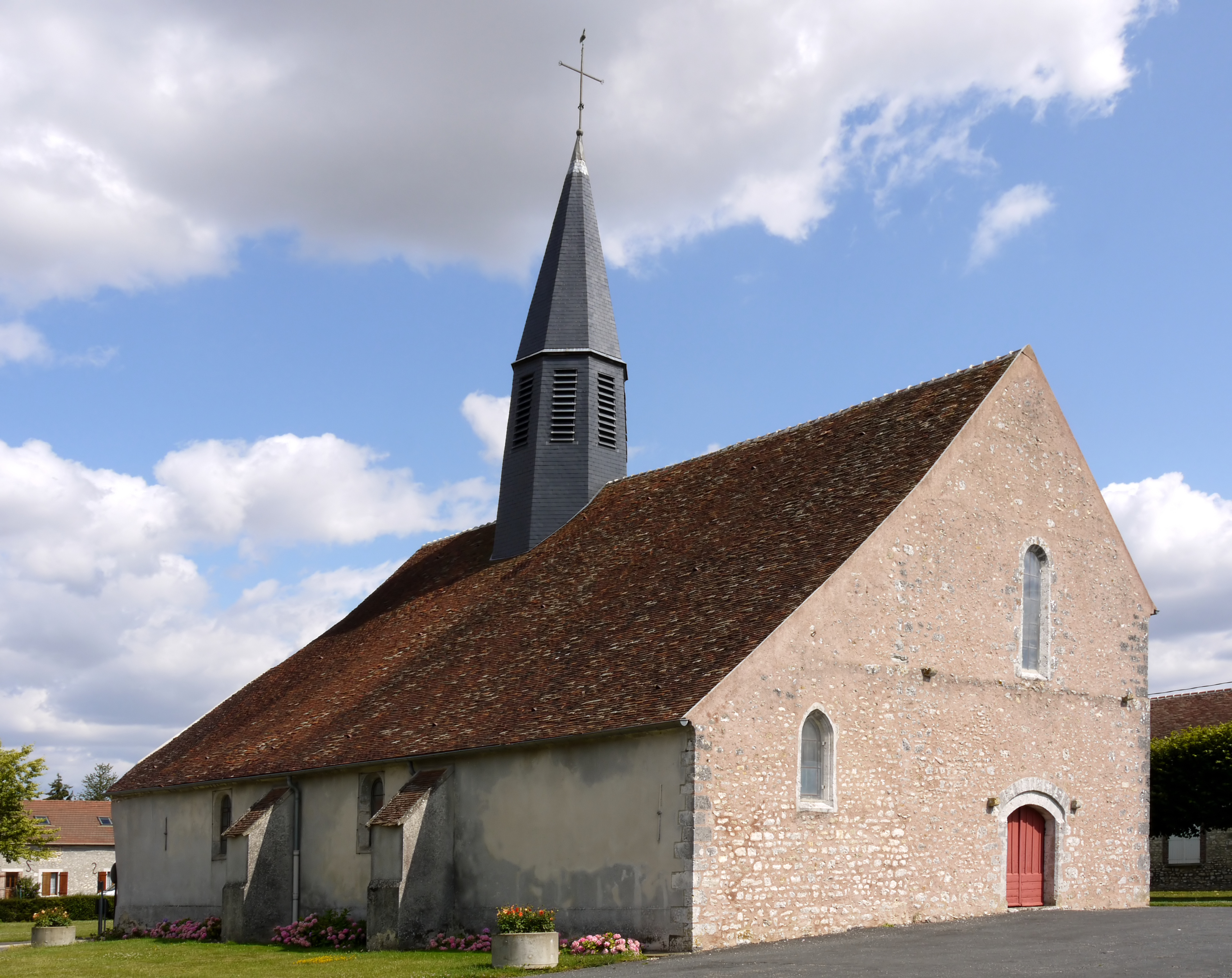 Church of Saint-Hilaire , Saint-Hilliers, Ile de France, France